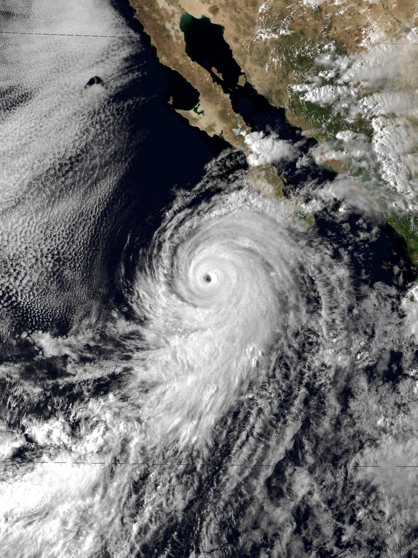 The VISSR instrument onboard the NOAA GOES-7 satellite captured this visible image of Hurricane Octave on September 13, 1989, at 00:00 UTC. At the time this image was captured, Octave was a Category 4 hurricane with maximum sustained wind speeds of 130 mph (215 km/h), and its minimum central pressure was 948 mb.